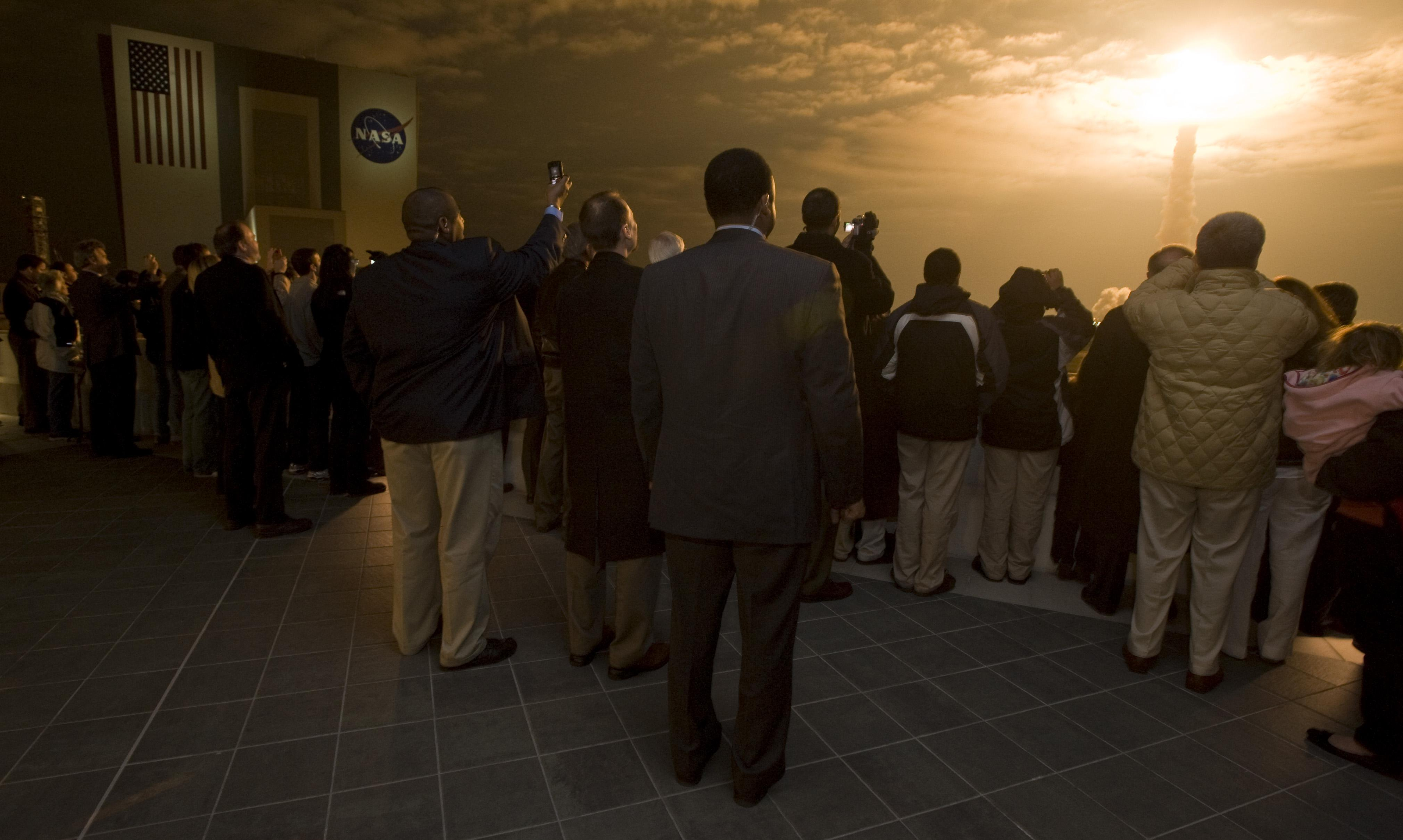 Guests look on from the terrace of Operations Support Building II as space shuttle Endeavour launches on the shuttle program's last planned night launch. Endeavour launched from Kennedy Space Center's Launch Pad 39A to begin the STS-130 mission. Mission STS-130 will deliver a third connecting module, the Italian-built Tranquility node and a seven-windowed cupola, which will be used as a control room for robotics, to the International Space Station.